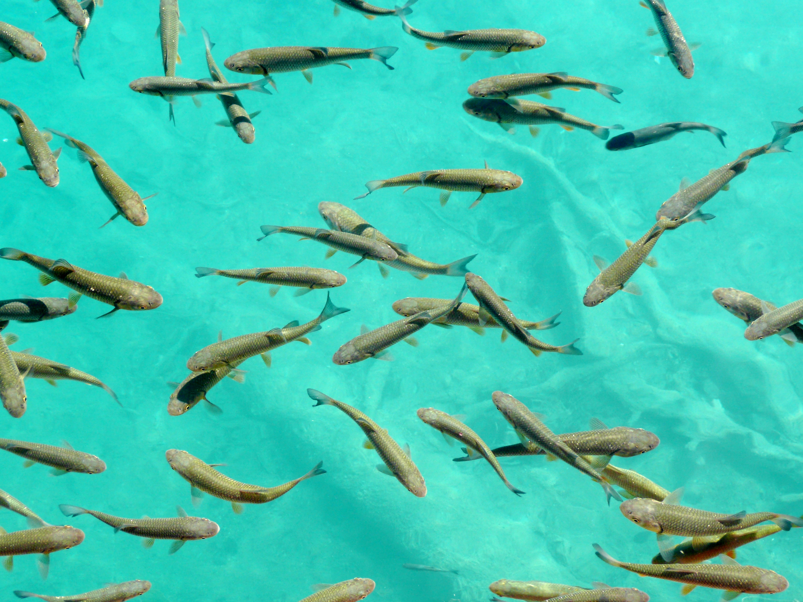 Fishes in the clear water of the Plitvice Lakes in Croatia.